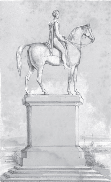 Statue of T. Munro, bart. erected 1839 on the glacis of Fort St George